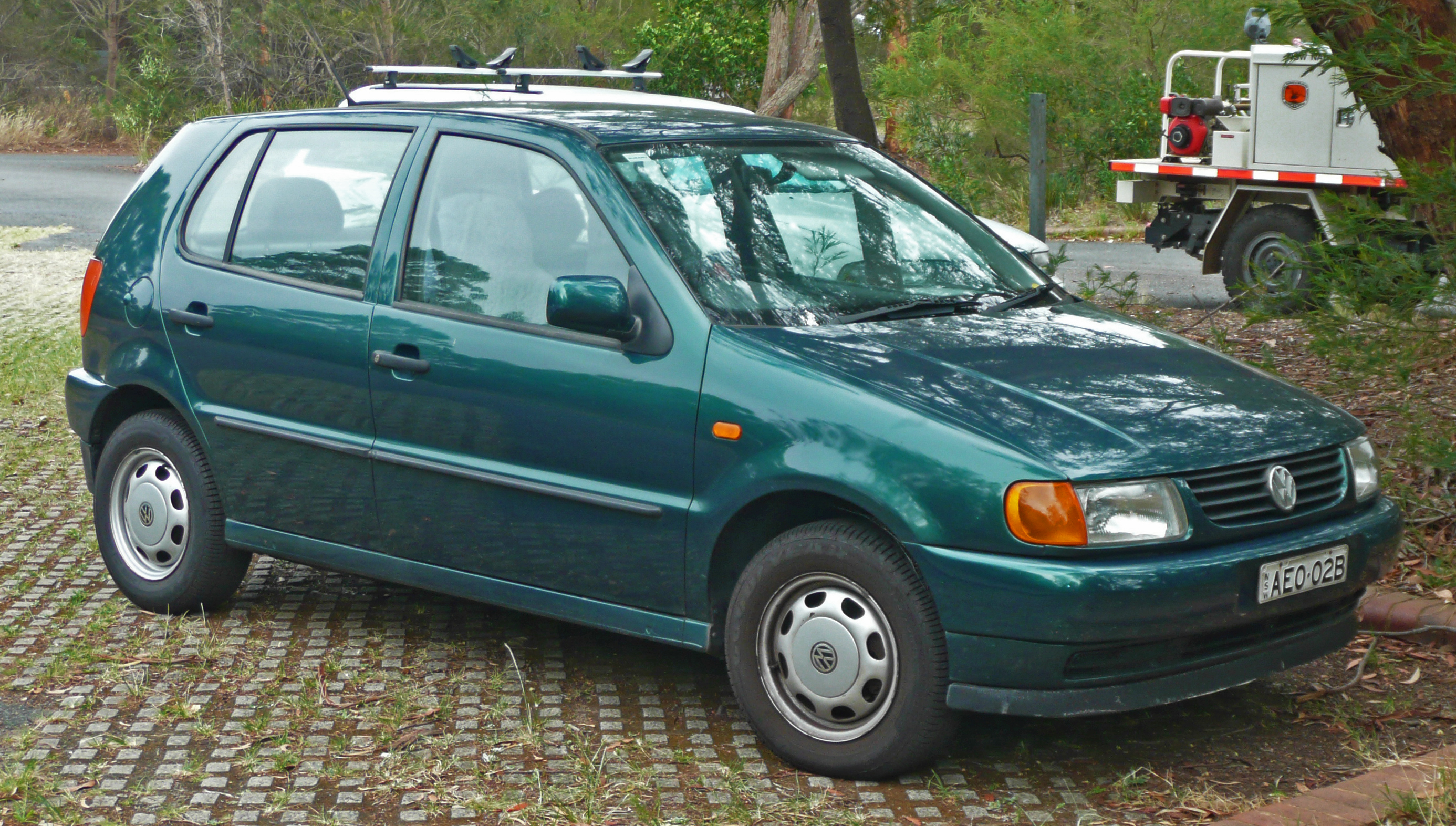 1997 Volkswagen Polo (6N) 5-door hatchback. Photographed in Audley, New South Wales, Australia.